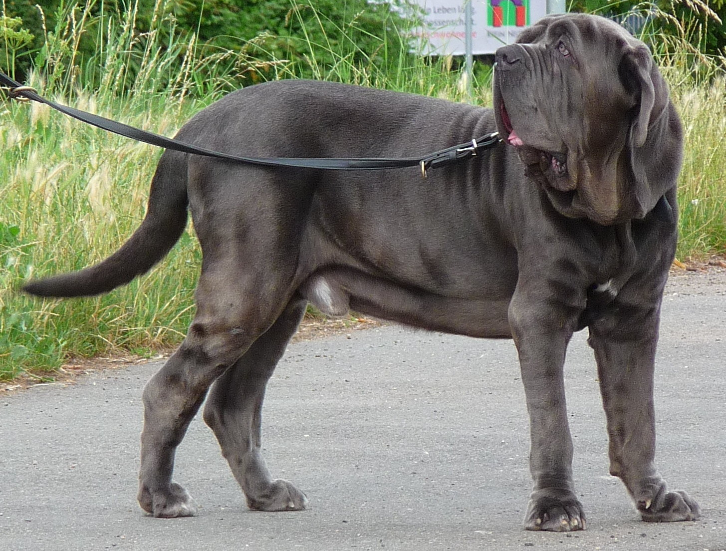 Neapolitan Mastiff.